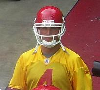 Tyler Thigpen, quarterback with the Kansas City Chiefs.